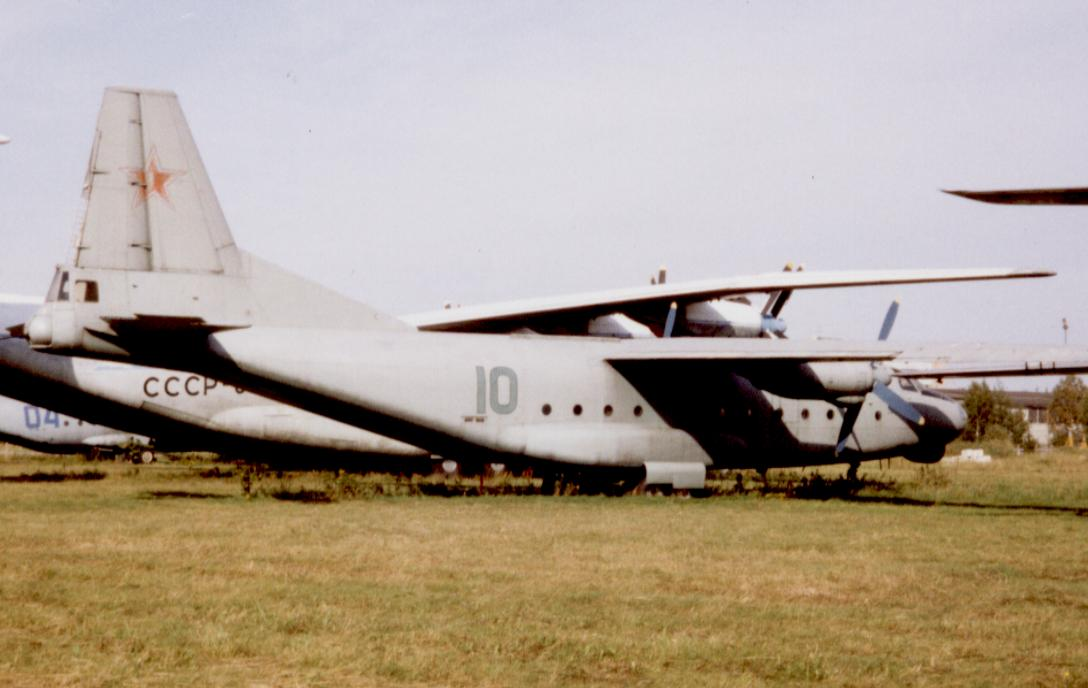 Antonov An-8 "Camp" 10 Green of the Soviet Air Force on display at the Monino Museum, Moscow